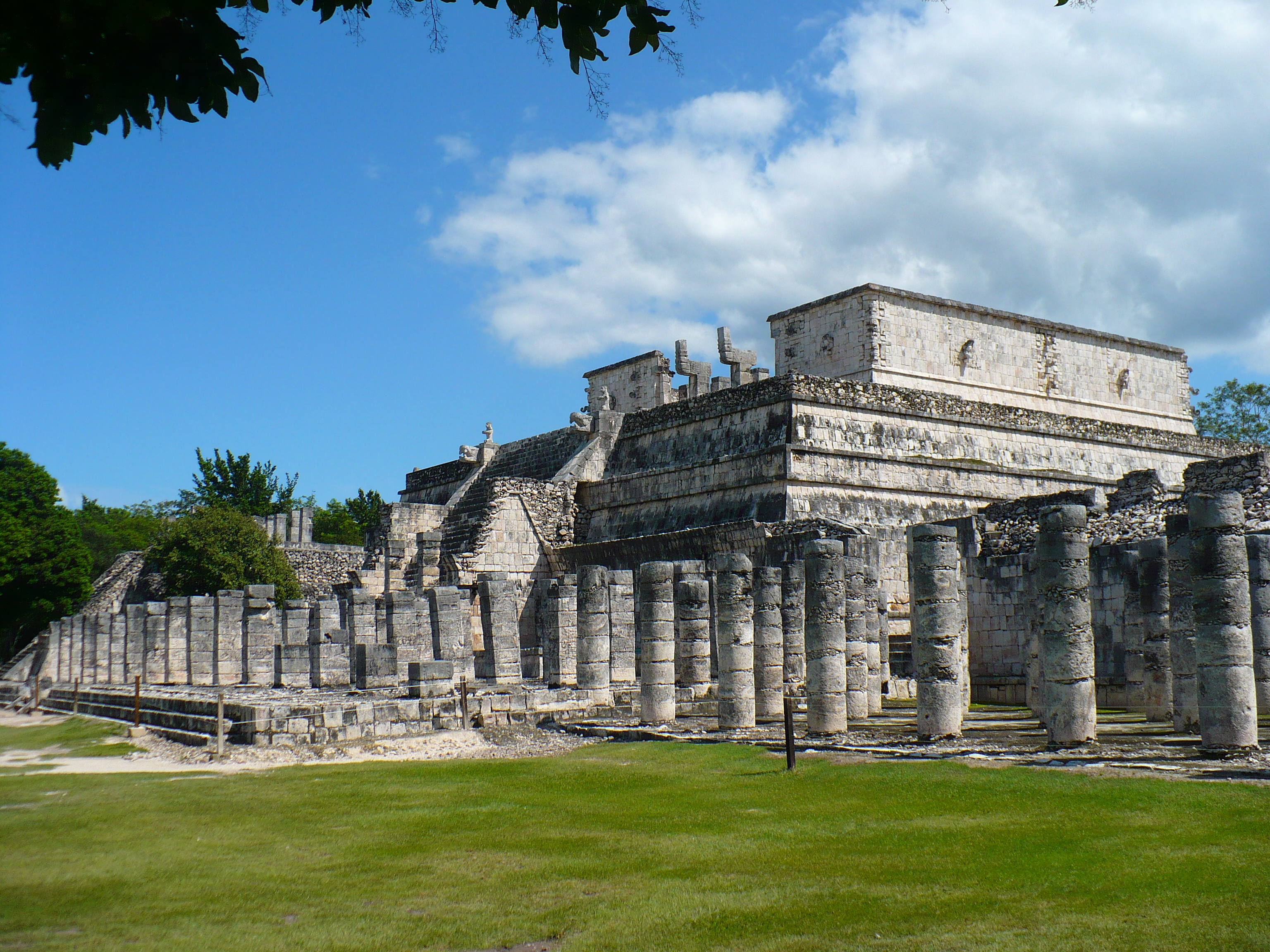 View of the Temple of the Warriors at Chichen Itza.